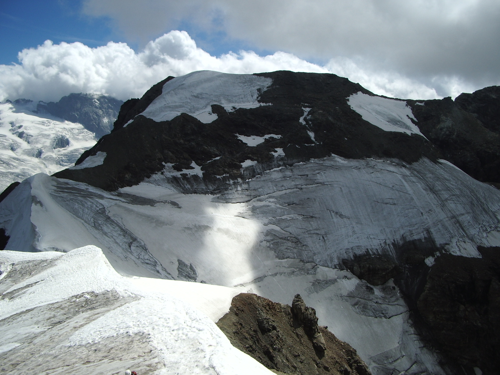 Mont Brulé, view from Pointe Marcel Kurz